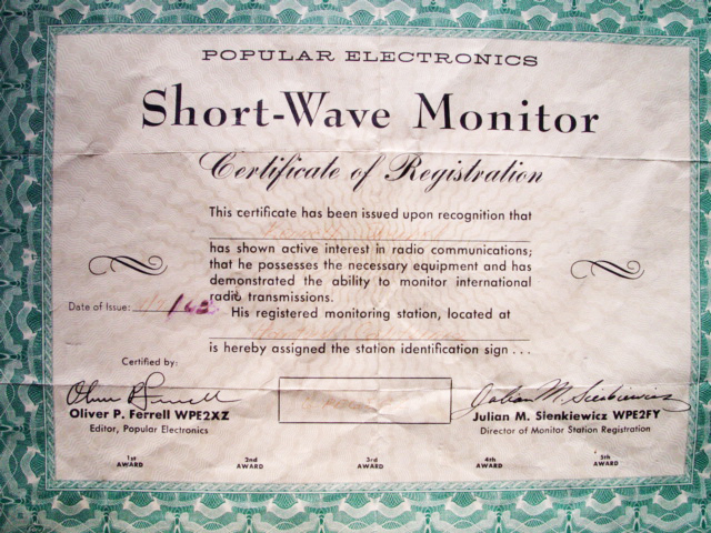 Popular Electronics Short-wave monitor certificate dated 1/7/1963 for WPE6EGZ, Kenneth Shenkel of Hanford, California.